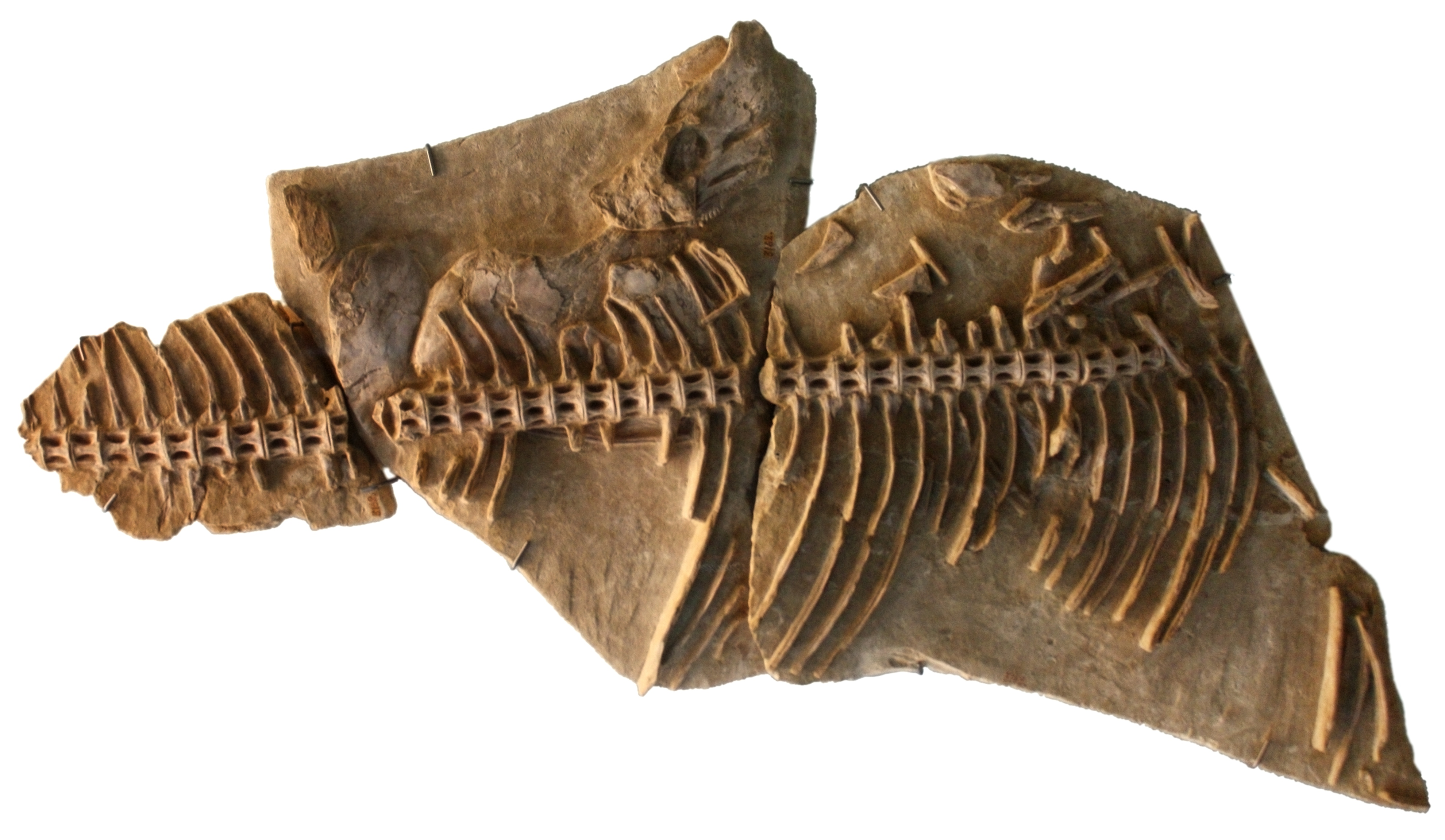 Fossil of Saurodon intermedius (Newton, 1878) (jr synonym = Saurocephalus intermedius) ~68-70 mya